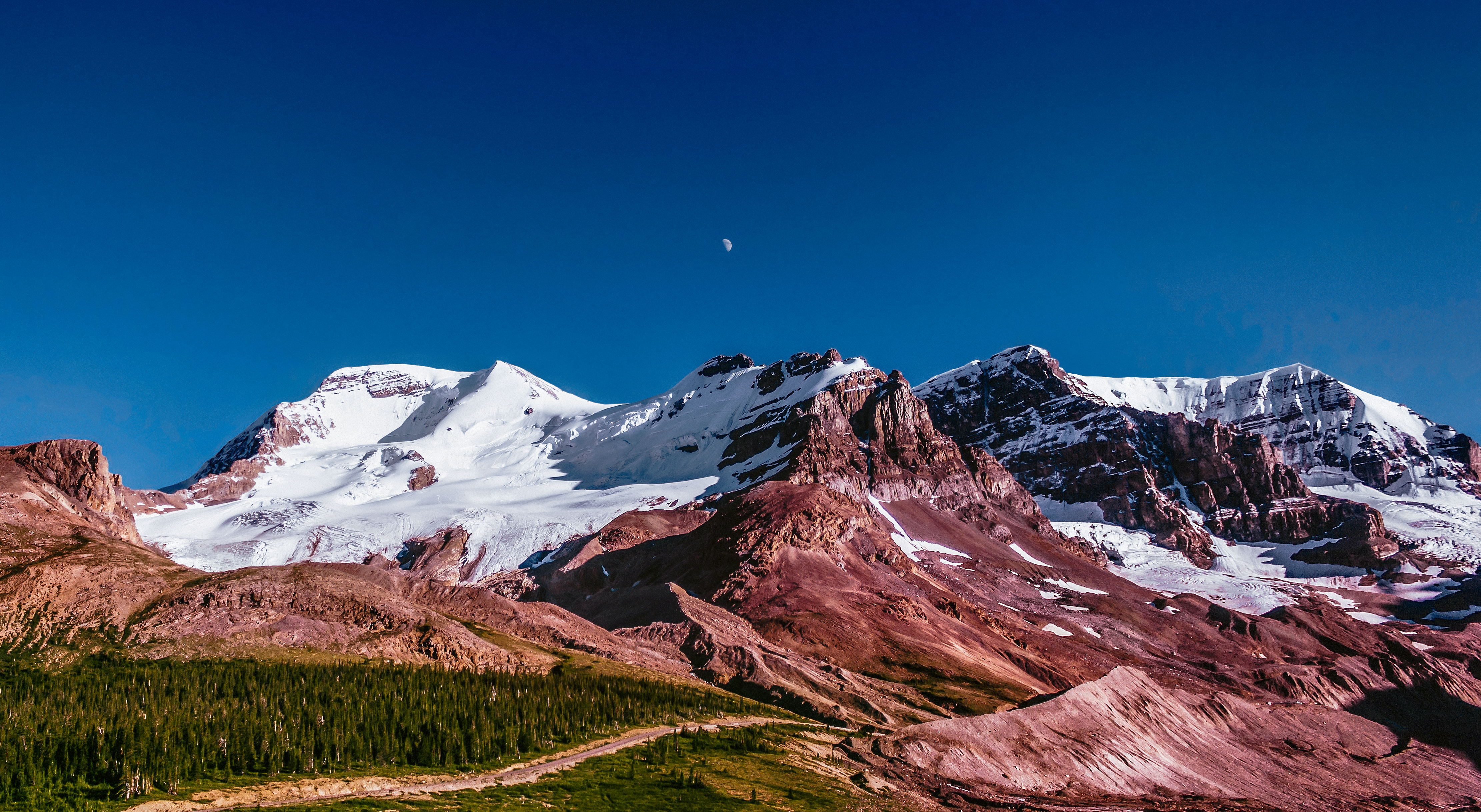 Mount Athabasca in Jasper National Park in summer (2013).